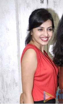 Launch of JD Majethia's 'Hats Off Actors Studio' Shrenu Parikh at Launch of JD Majethia's 'Hats Off Actors Studio'